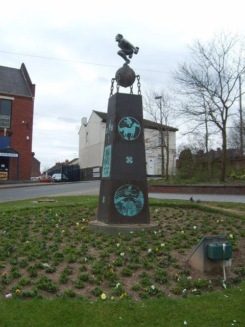 Joe Darby A sculpture to the local world standing jumping champion of victorian times.